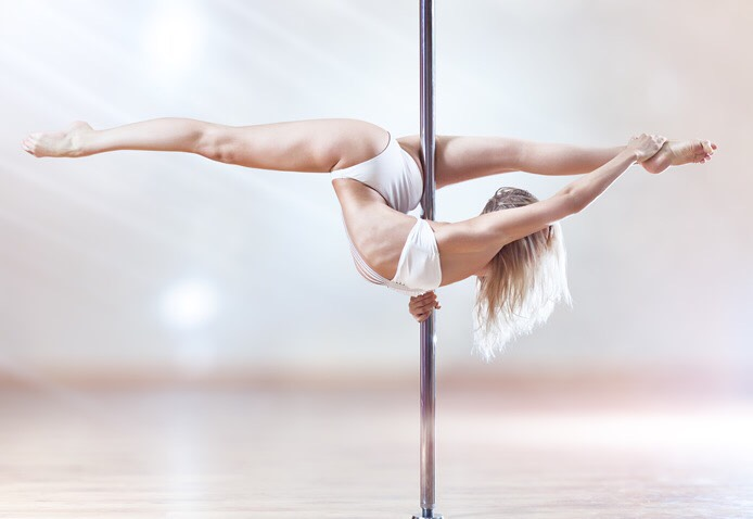 pole001